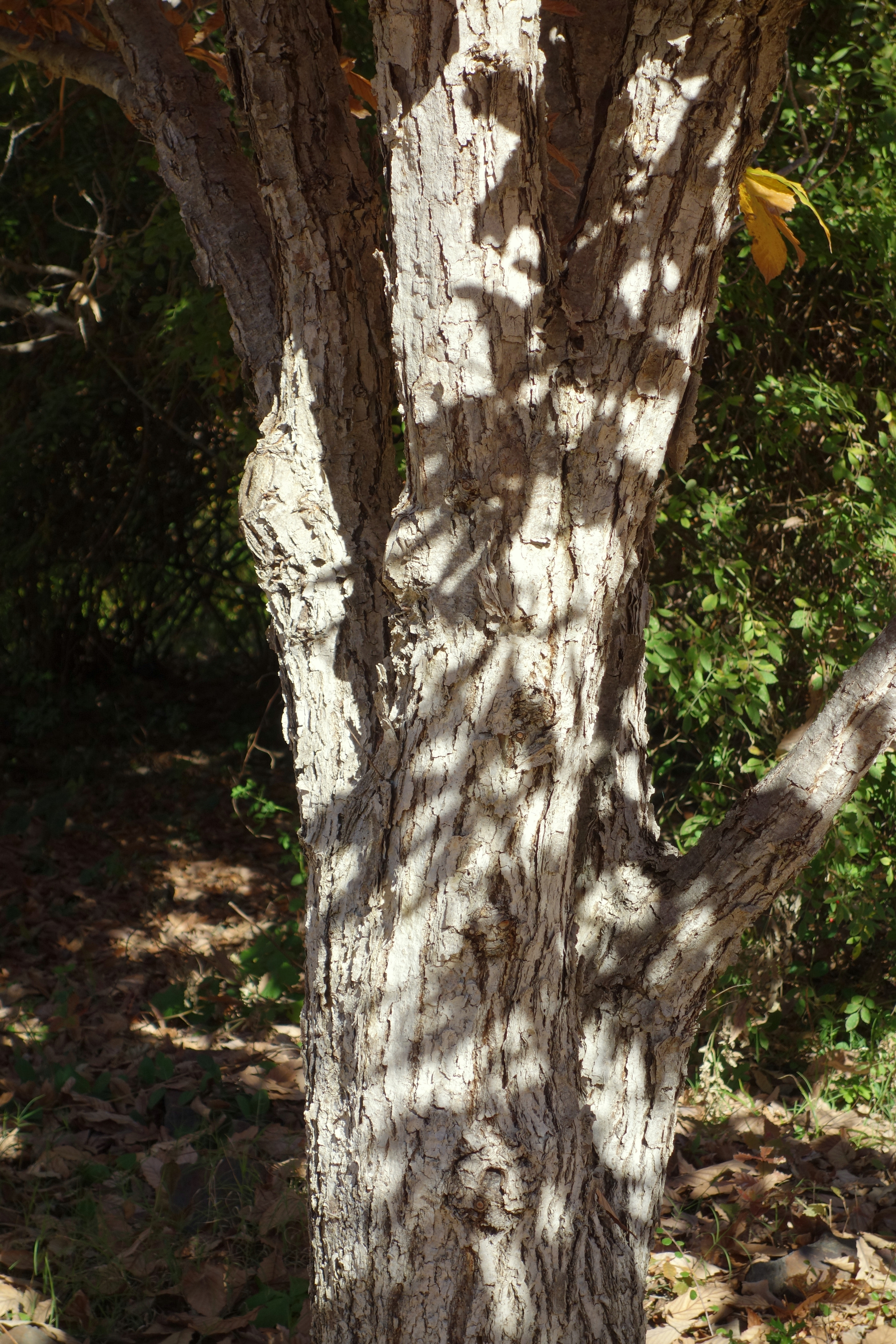 Botanical specimen in Quarryhill Botanical Garden, Glen Ellen, California, USA.